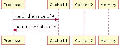 A processor fetch data on the L1 cache.